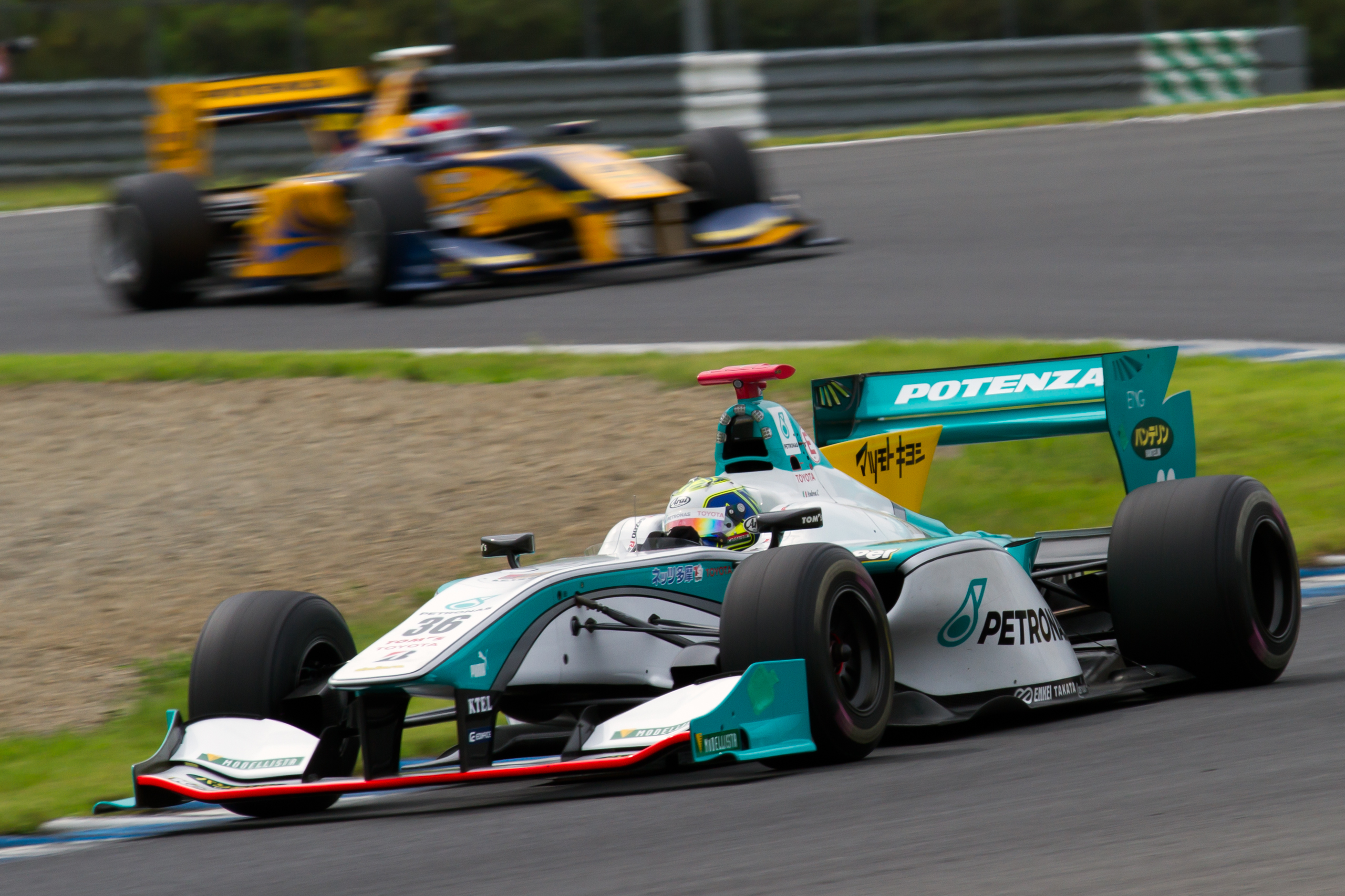 Super Formula 2014 Rd.4 Motegi: Andrea Caldarelli (Team TOM'S)